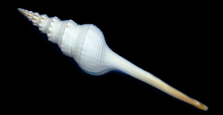 A shell of Fusinus colus, from my personal collection.